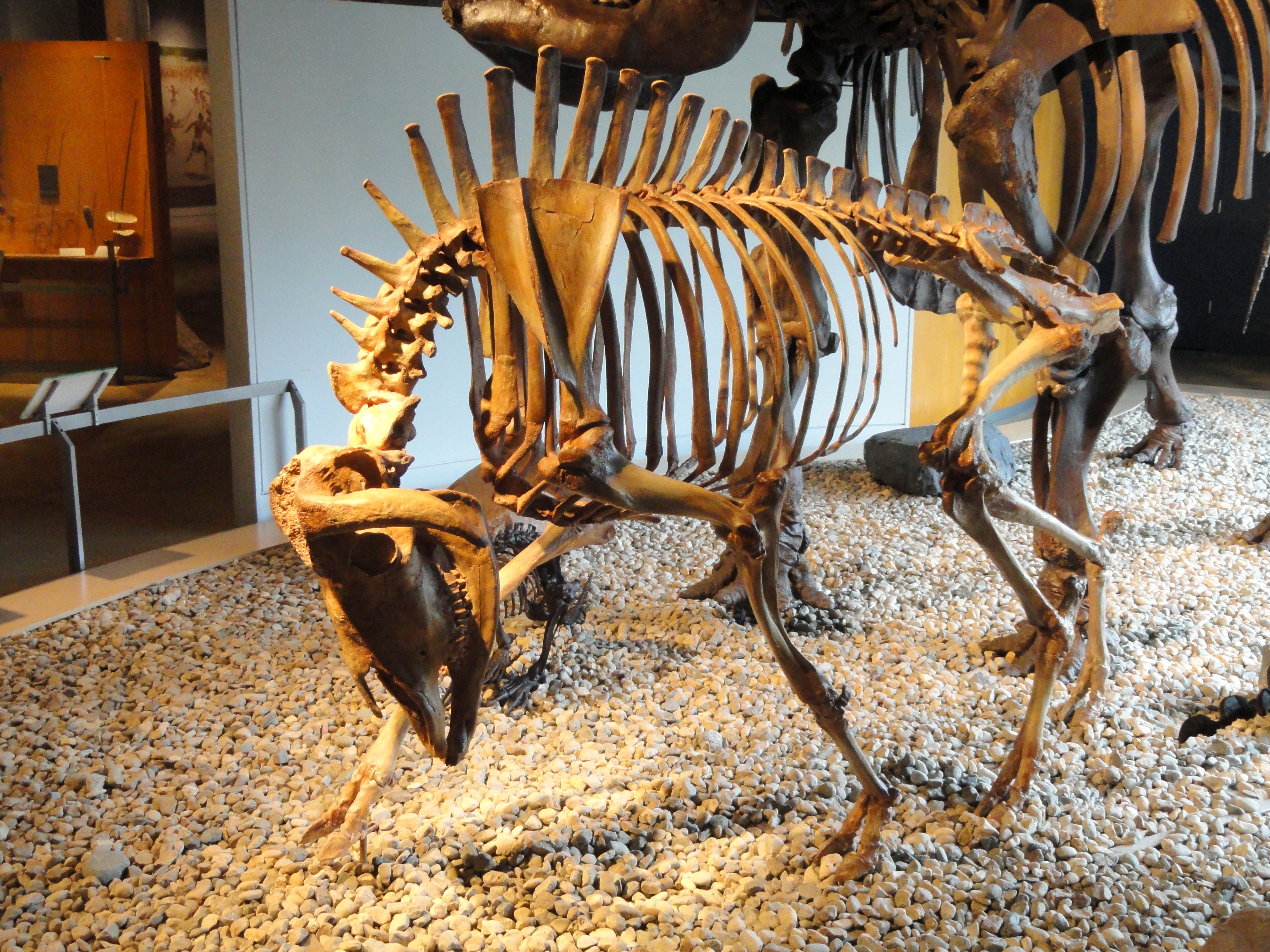 Cast of Bootherium bombifrons' (Harlan's musk ox) skeleton, assembled from specimens found in several states. Indiana State Museum, 650 West Washington Street, Indianapolis, Indiana, USA.